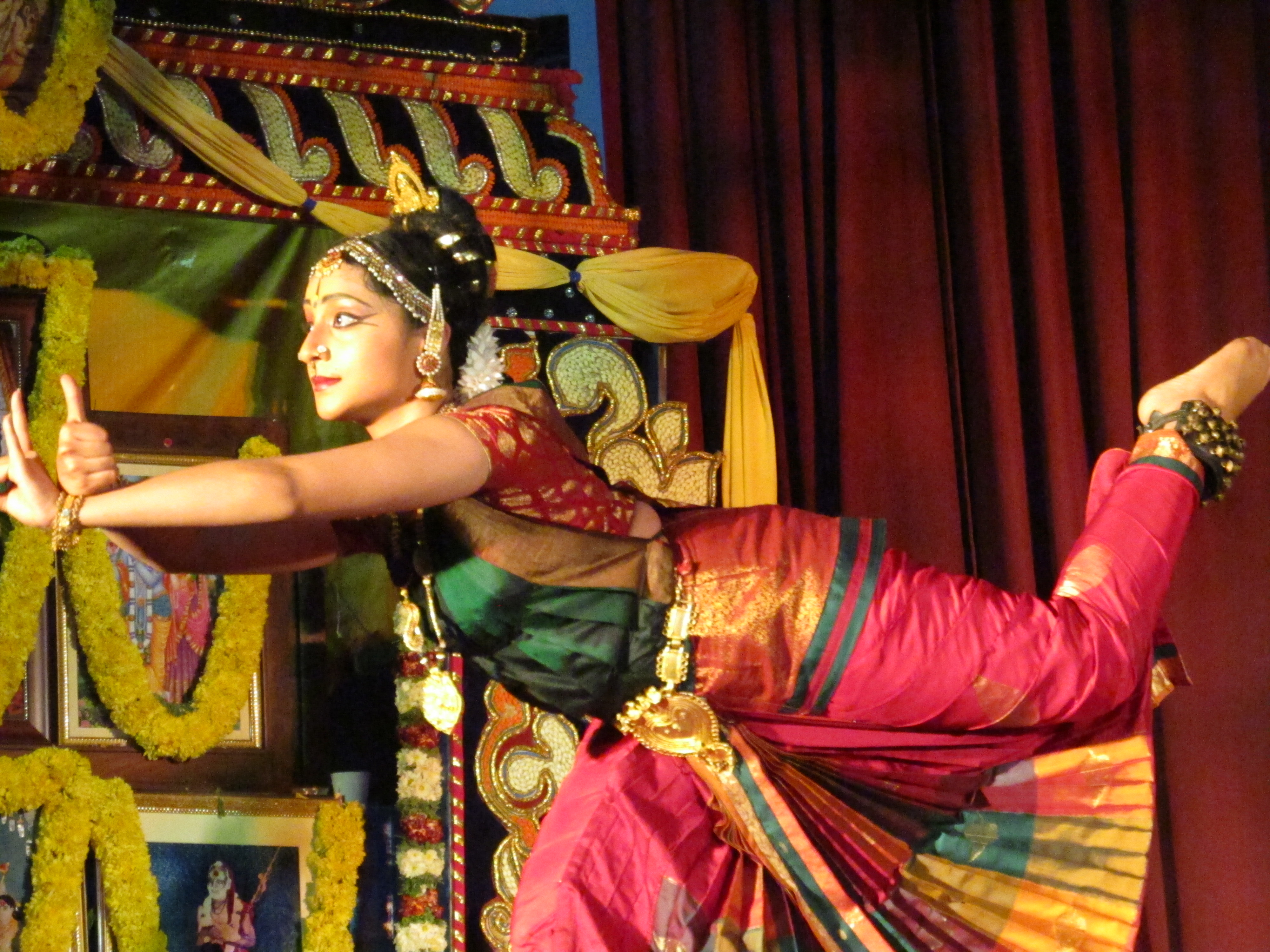 I am re-uploading this picture as admin Eugene suggested me to do it from the system!